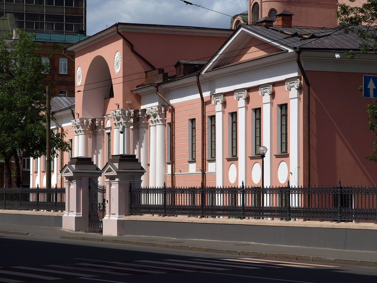 43, Myasnitskaya Street, Moscow. Lobanov-Rostovsky house, built in 1790s, is attributed to architect Francesco Camporesi. In late 19th century the large estate became a mechanical factory.